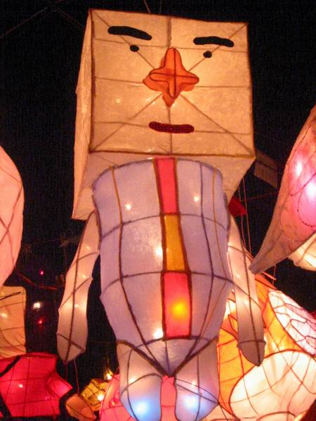 japen cartoon character during festival in Taiwan